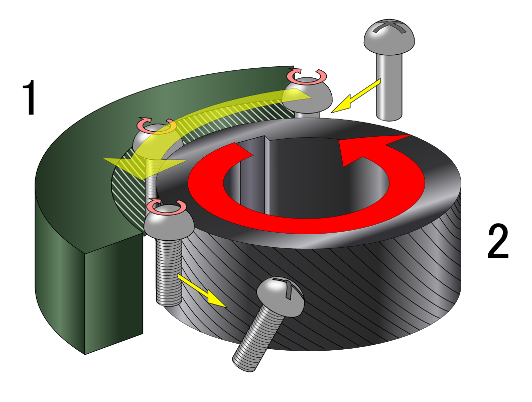 Screw (bolt) 15-n